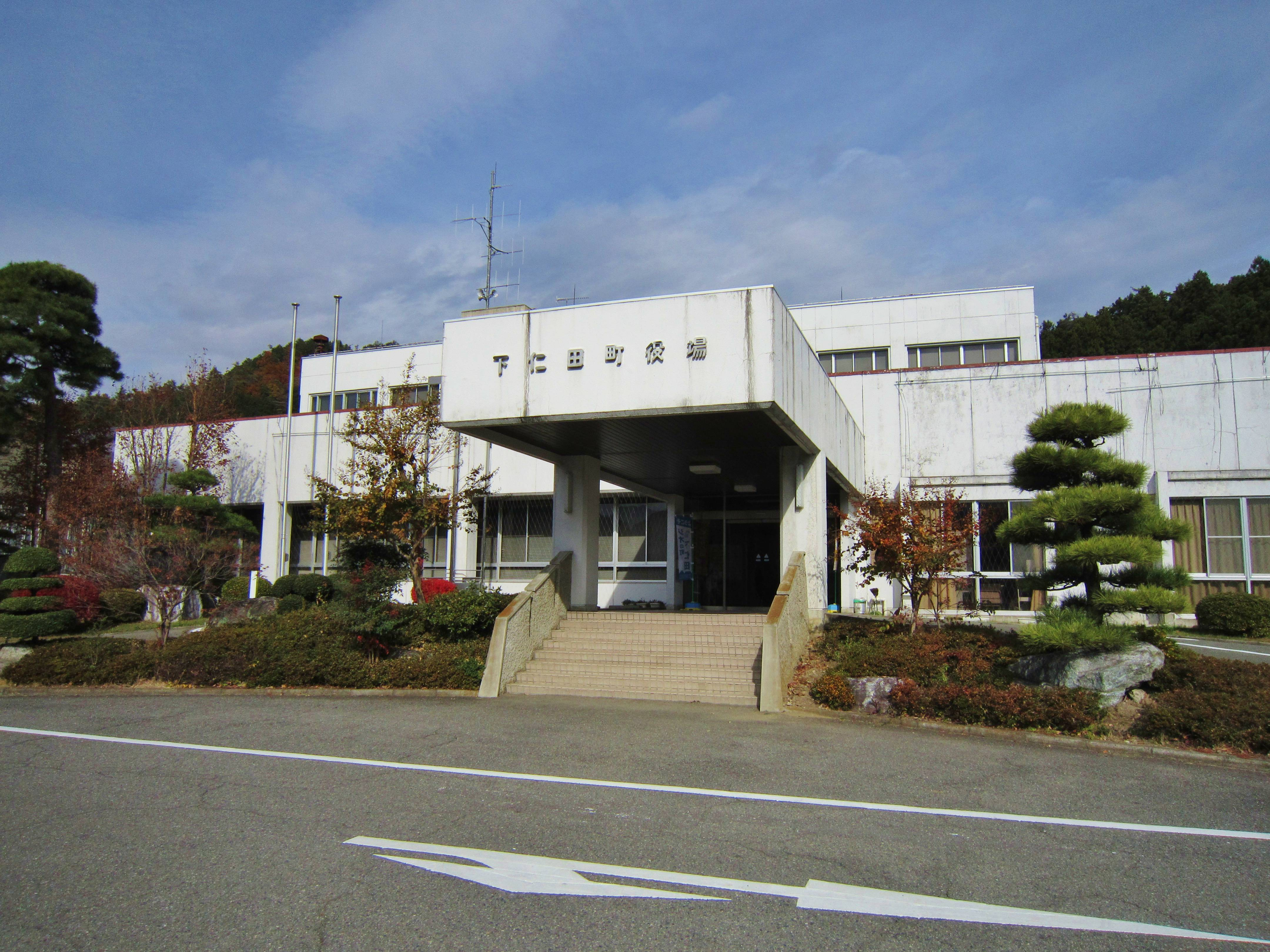 Shimonita Town Hall